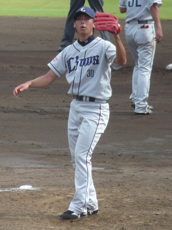 SL-Yosuke-Okamoto20100829